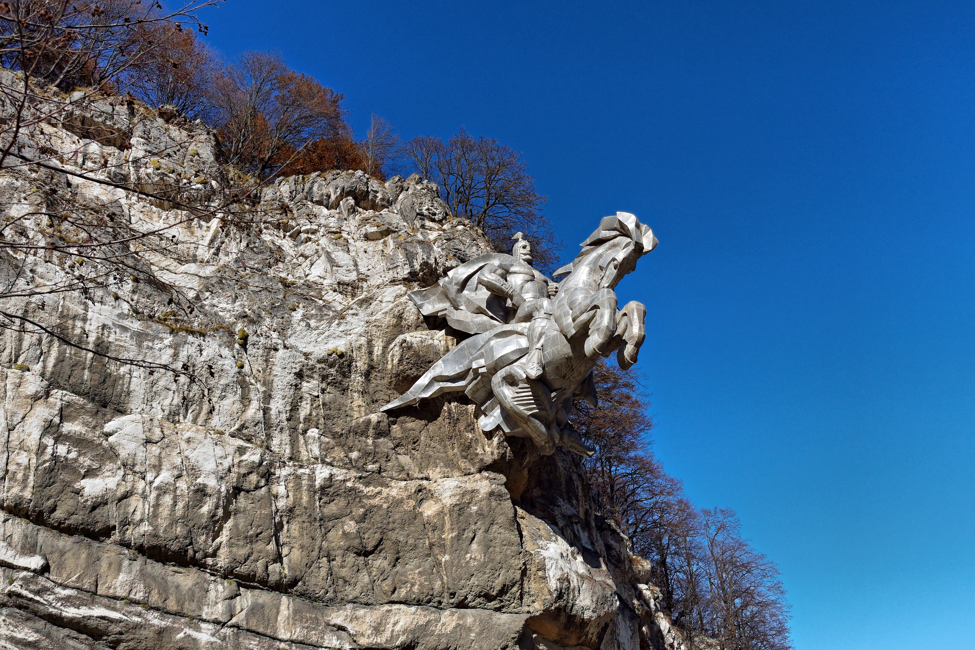 North Ossetia. Alagirsky District. Monument Uastyrdzhi